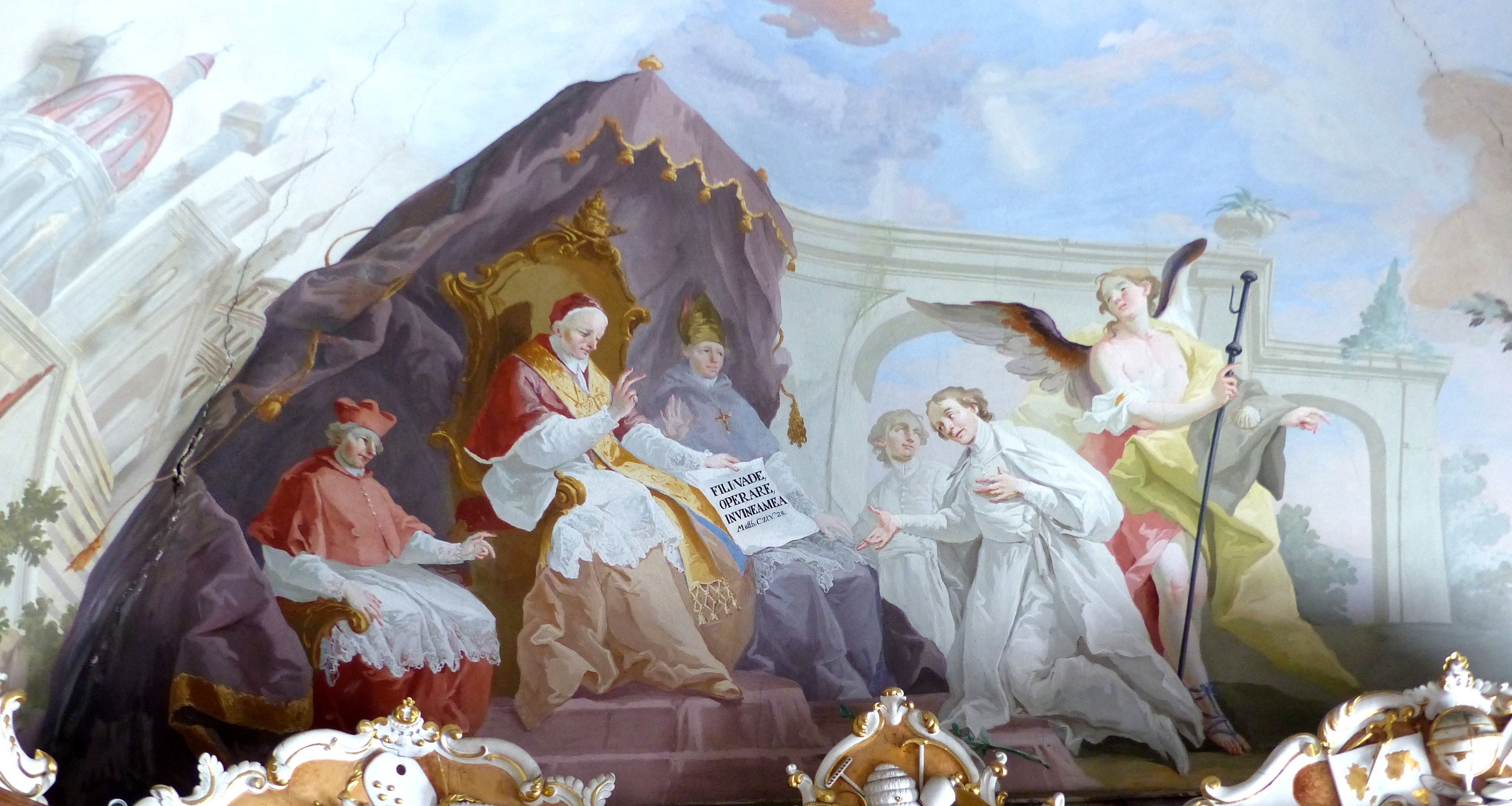 Nová Říše ( Czech Republic ). Monastery library ( 1770 ) - Fresco at the ceiling: Pope Honorius II confirms the rule of the order of Premontre to its founder Norbert of Xanten.